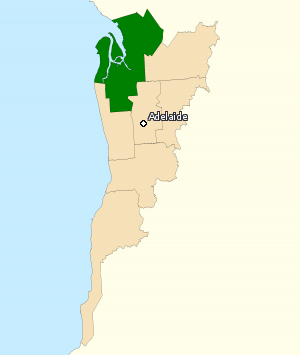 Incorporates or developed using Administrative Boundaries ©PSMA Australia Limited licensed by the Commonwealth of Australia under Creative Commons Attribution 4.0 International licence (CC BY 4.0). Derived from State and Territory Boundaries from the Australian Bureau of Statistics under Creative Commons Attribution 2.5 Australia license (CC BY 2.5 AU)